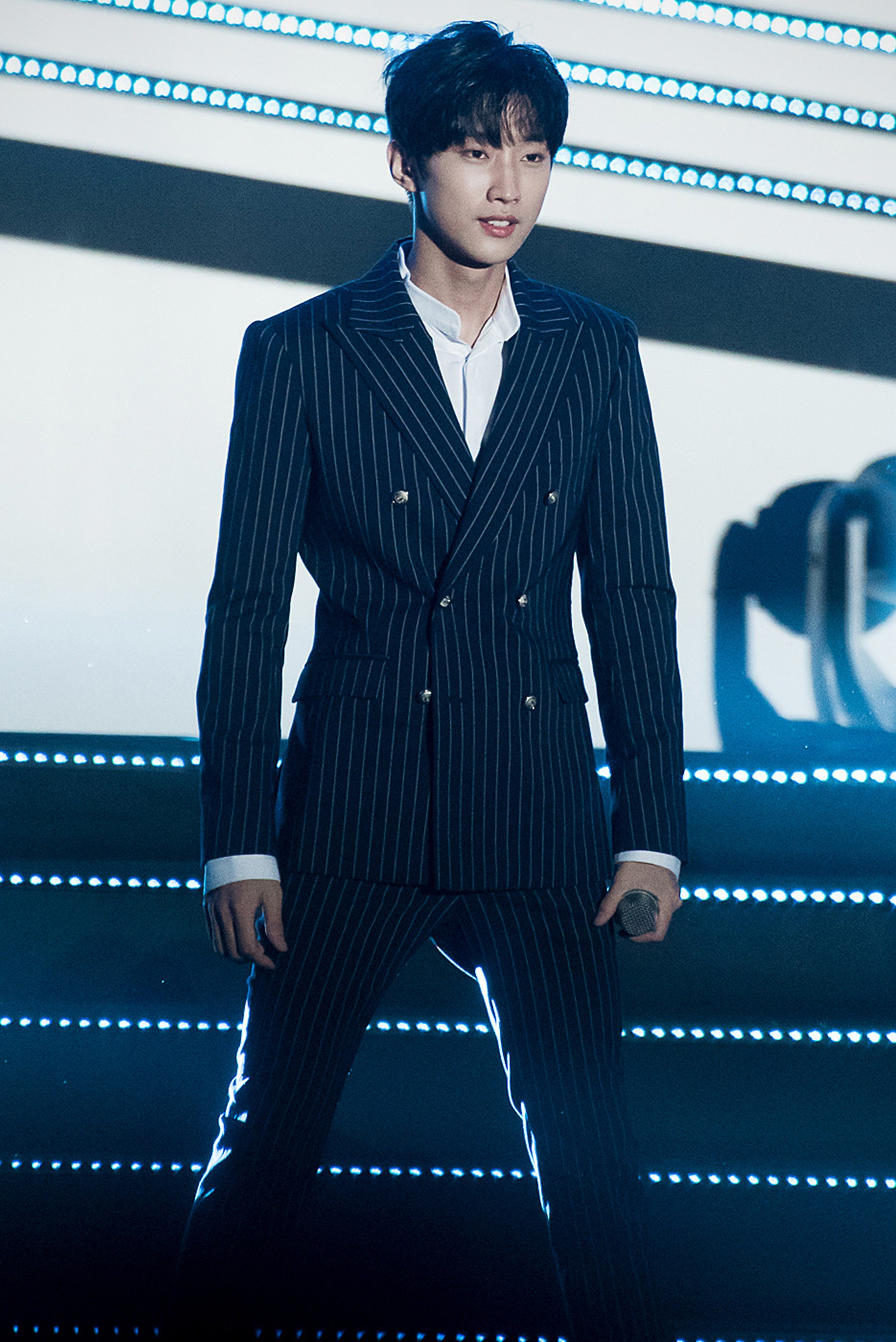 Jung Jin-young at WFMF concert on September 11, 2016.